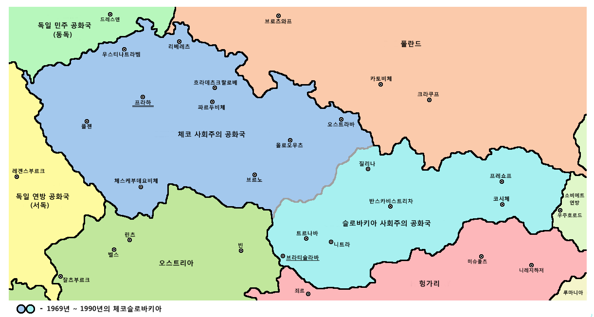 Map of Czechoslovakia in 1969-1990.